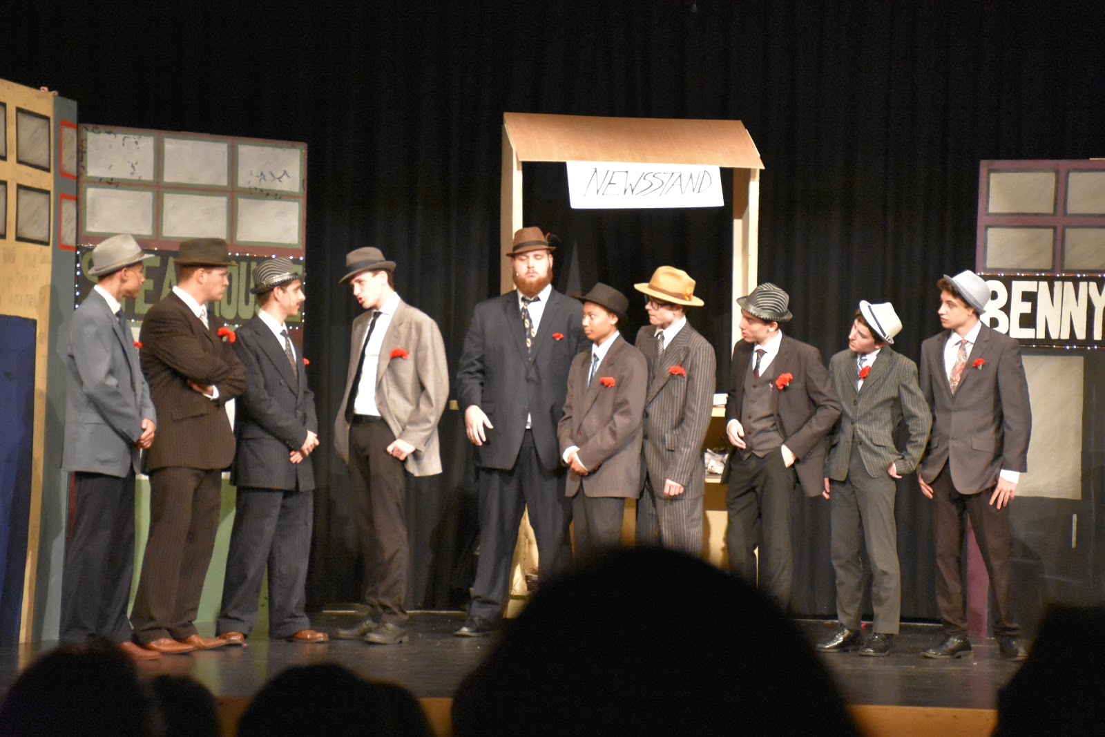 Holy Trinity has been under the guidance of Mrs. Lanna Borsellino, who retired in 2018. Theatre Trinity has always been a large part of the school and has sparked the creation of a new student club, the Student Teacher Arts Representatives (STAR) council. The STAR council has hosted an annual “Fringe Festival” which consist of student directed one act plays, this normally happens around Christmas time in the first semester. Second semester, the school normally takes on a larger production in a big play or musical lead by the head of the schools drama department. In the Spring of 2017, the school put on a production of Tim Rice’s “Jesus Christ Superstar” and starred seniors Olivia Ouzounis, Jacob Moro, and Luca D’Amico. In the spring of 2018, the school put on a production of Frank Loesser “Guys and Dolls” and starred seniors Jackson Bulthuis, Jordan Lie, Brianna Mele, and Daniel Cabraja. Below is an image of “The Gamblers” as well as an image of the iconic “Havana” scene.